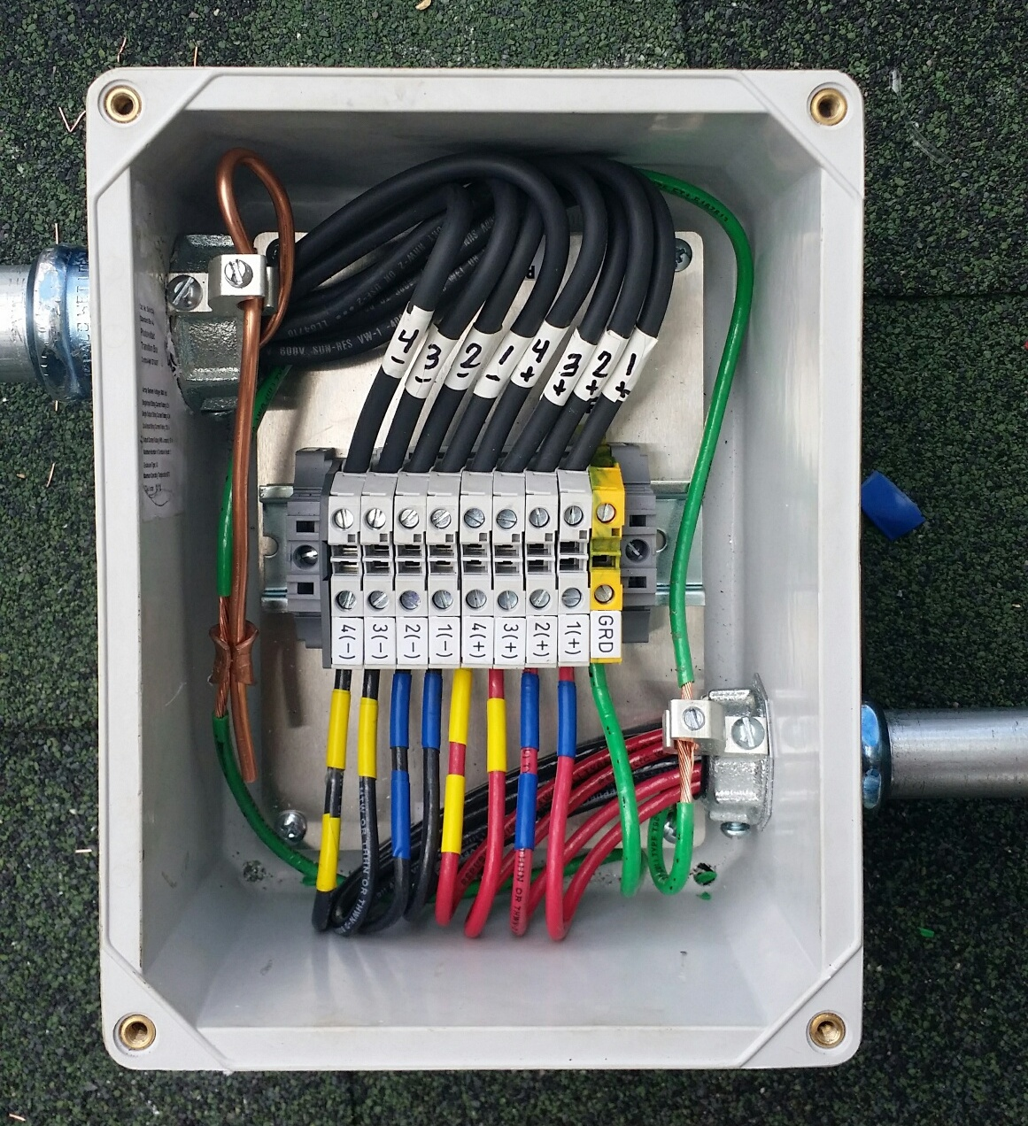 Photovoltaic Combiner Box